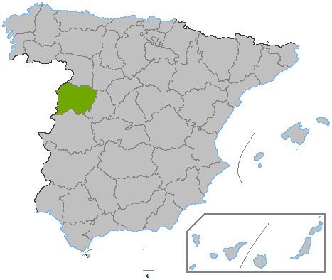 Location of the province of Salamanca, in Spain. Basado en: ProvPont.jpg Source: Designed by Satesclop. Original picture, designed by Sobreira.